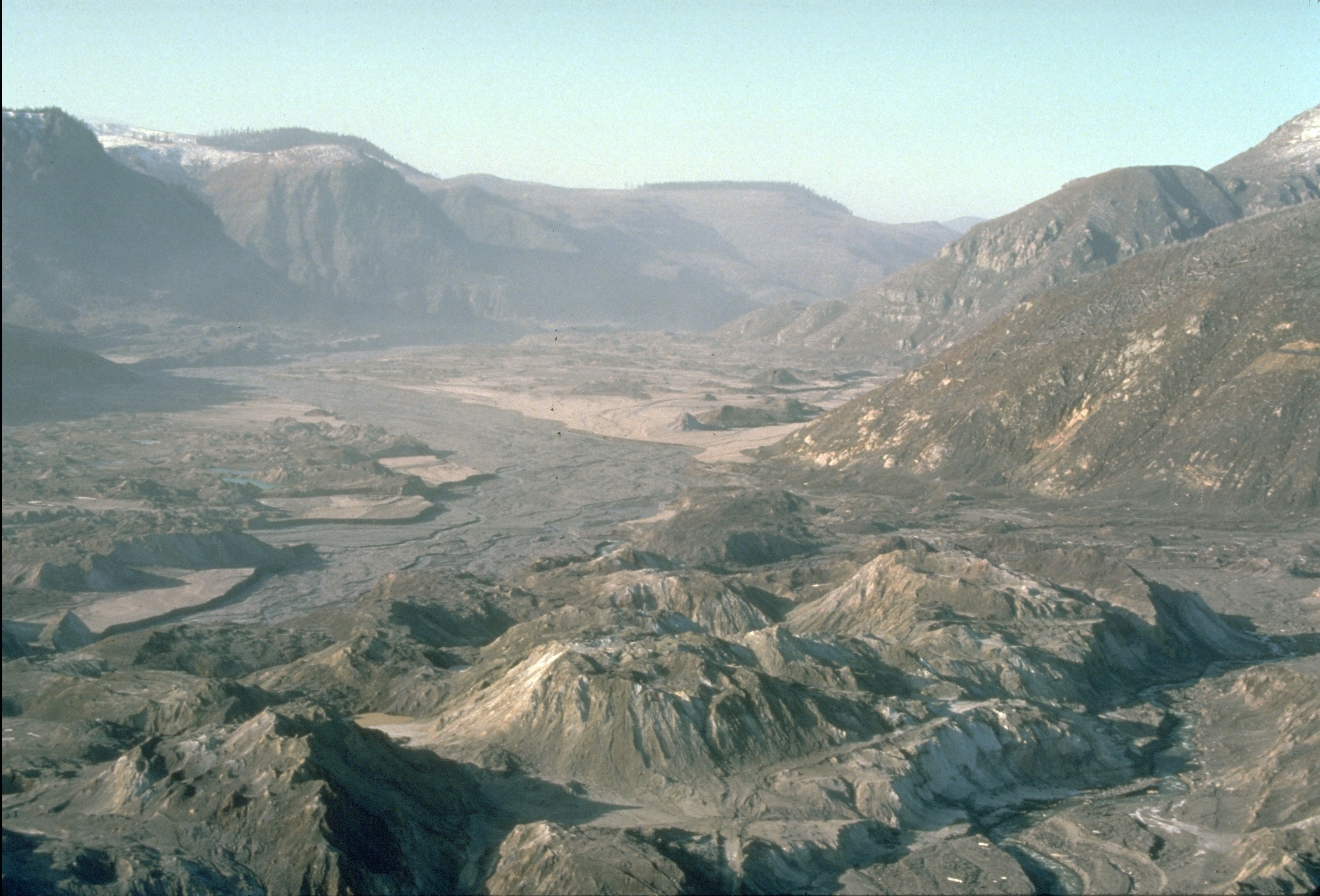 North Fork Toutle River valley in November 1983